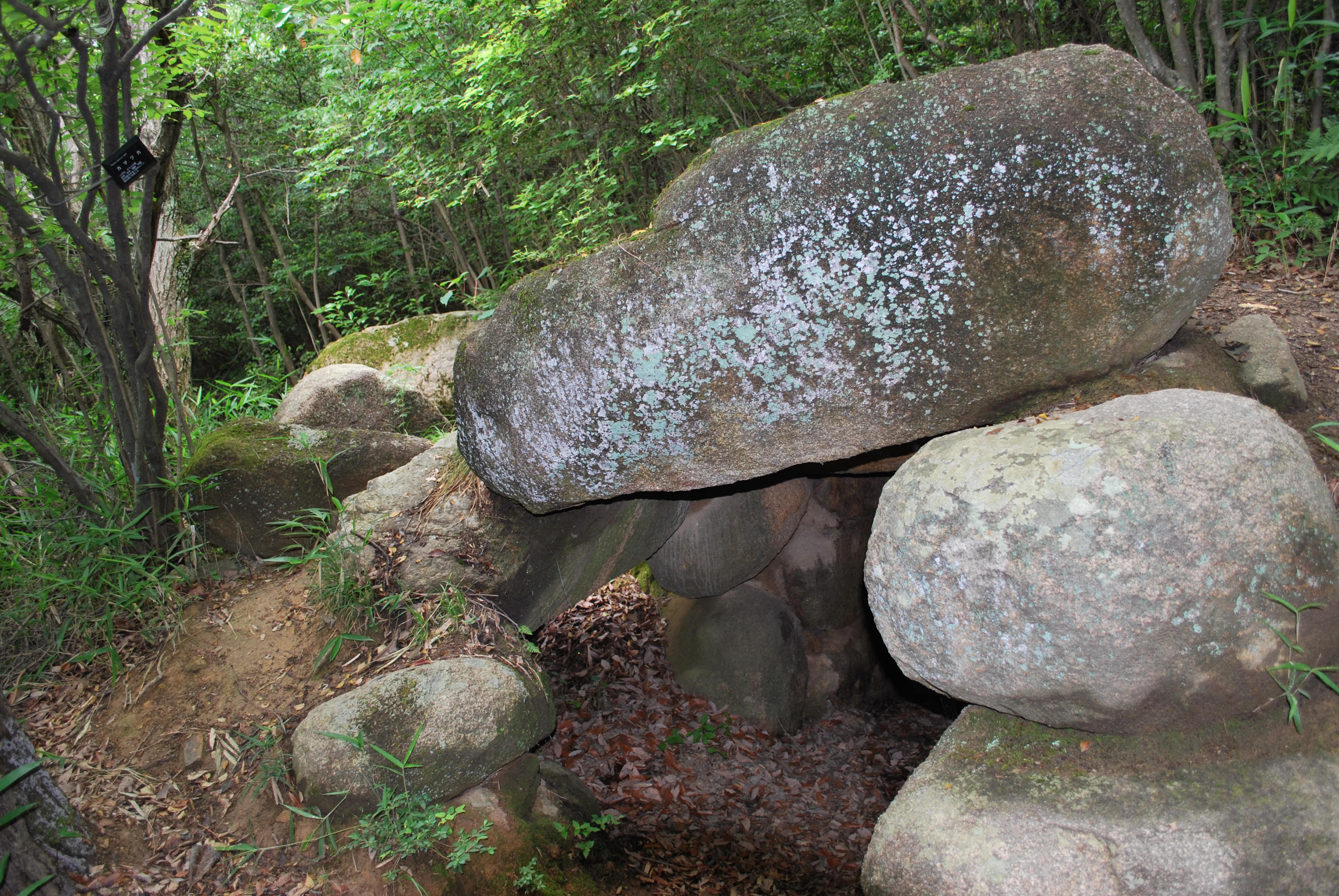 Futamata Kofun, Misaoyama Kofungun